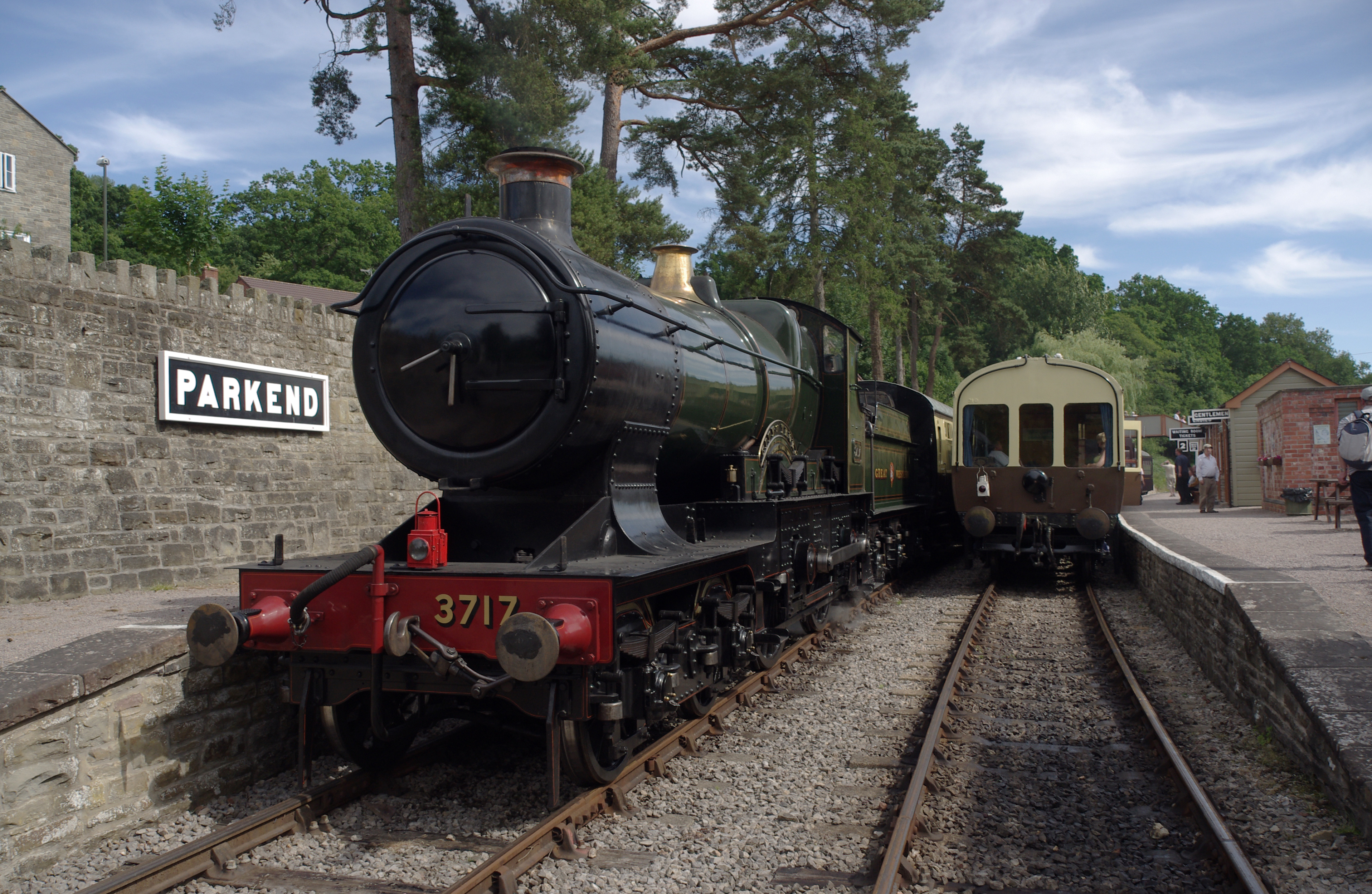 3717 "City of Truro" at Parkend railway station on the Dean Forest Railway.